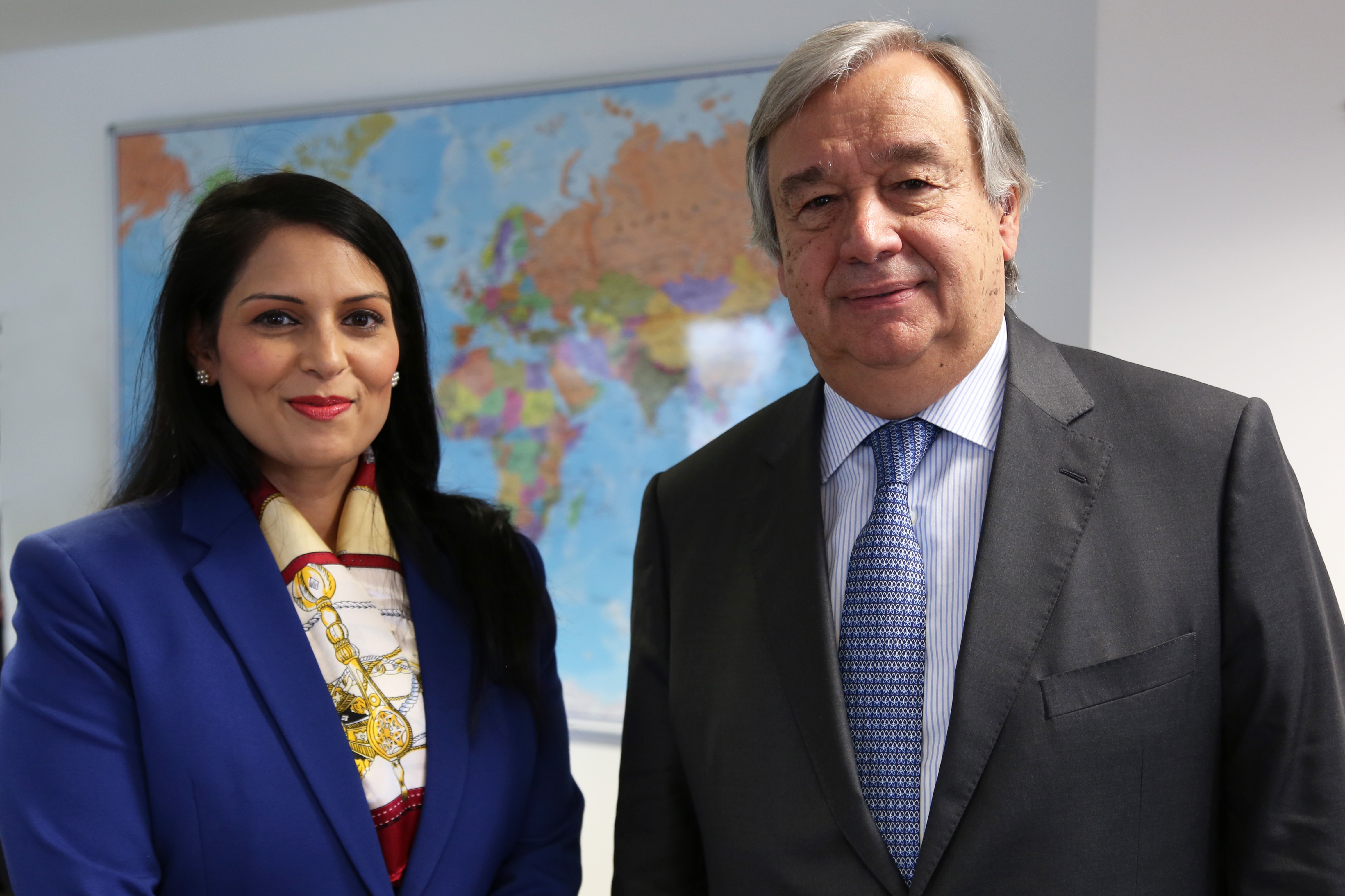 Secretary of State for International Development Priti Patel met the United Nations Secretary General elect Antonio Guterres at the DFID headquarters in London. Picture: Marisol Grandon/DFID